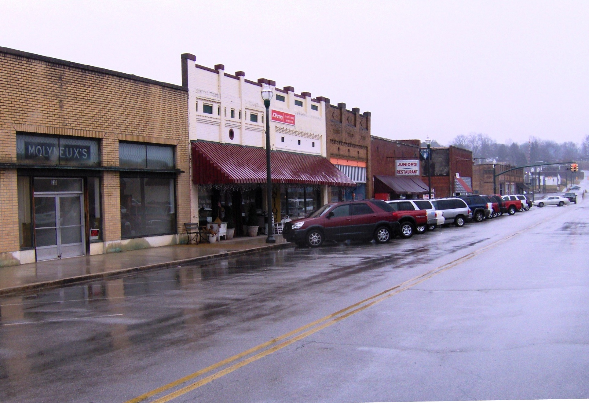 Rockwood Avenue, in Rockwood, Tennessee, USA, looking east.